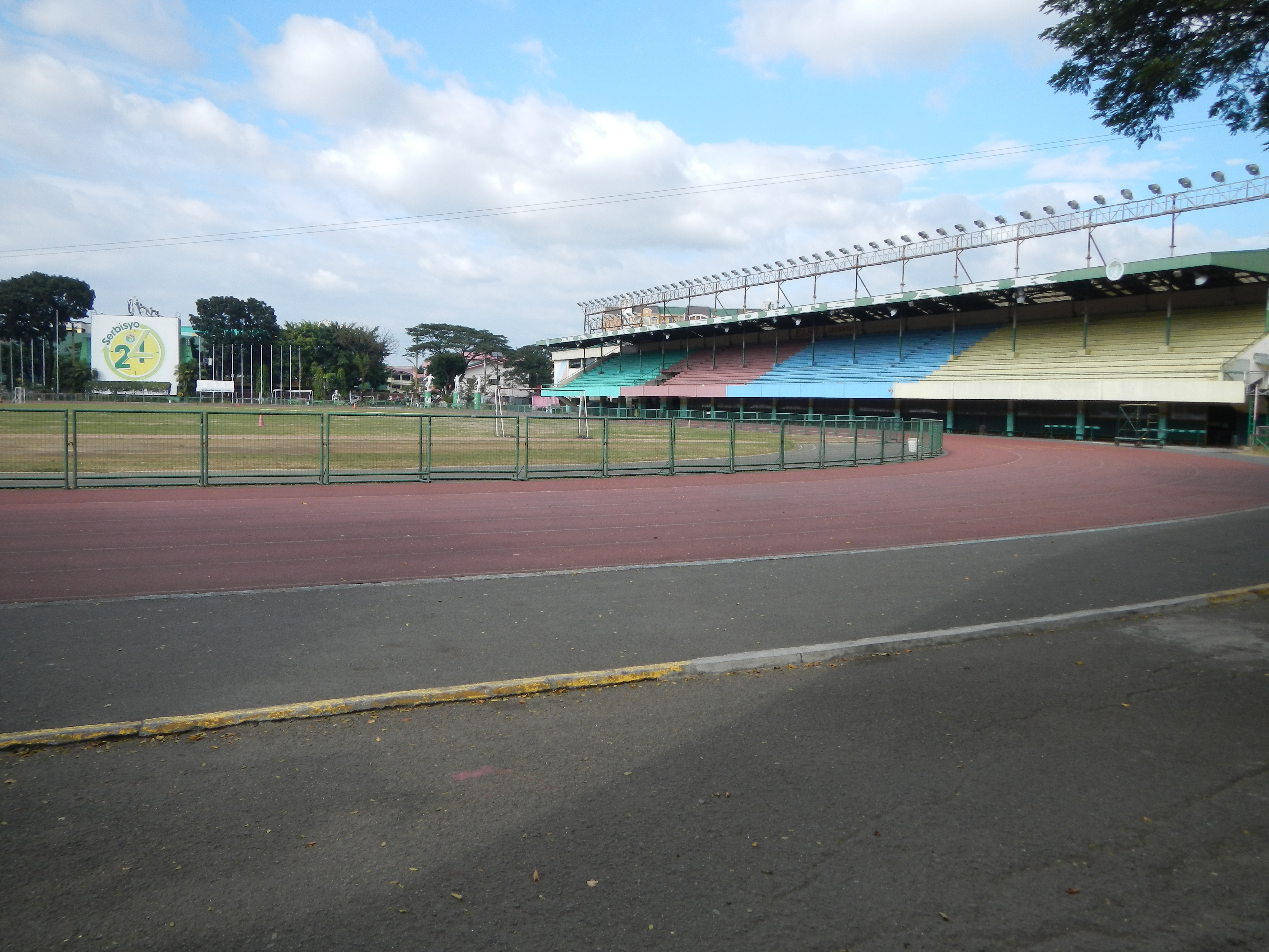 Upload Wizard photos of Marikina City [1] - )Barangay Barangaka, Marikina City, Hall [2] Complex, School and Centre of Commerce and Riverbank Center Mall[3]